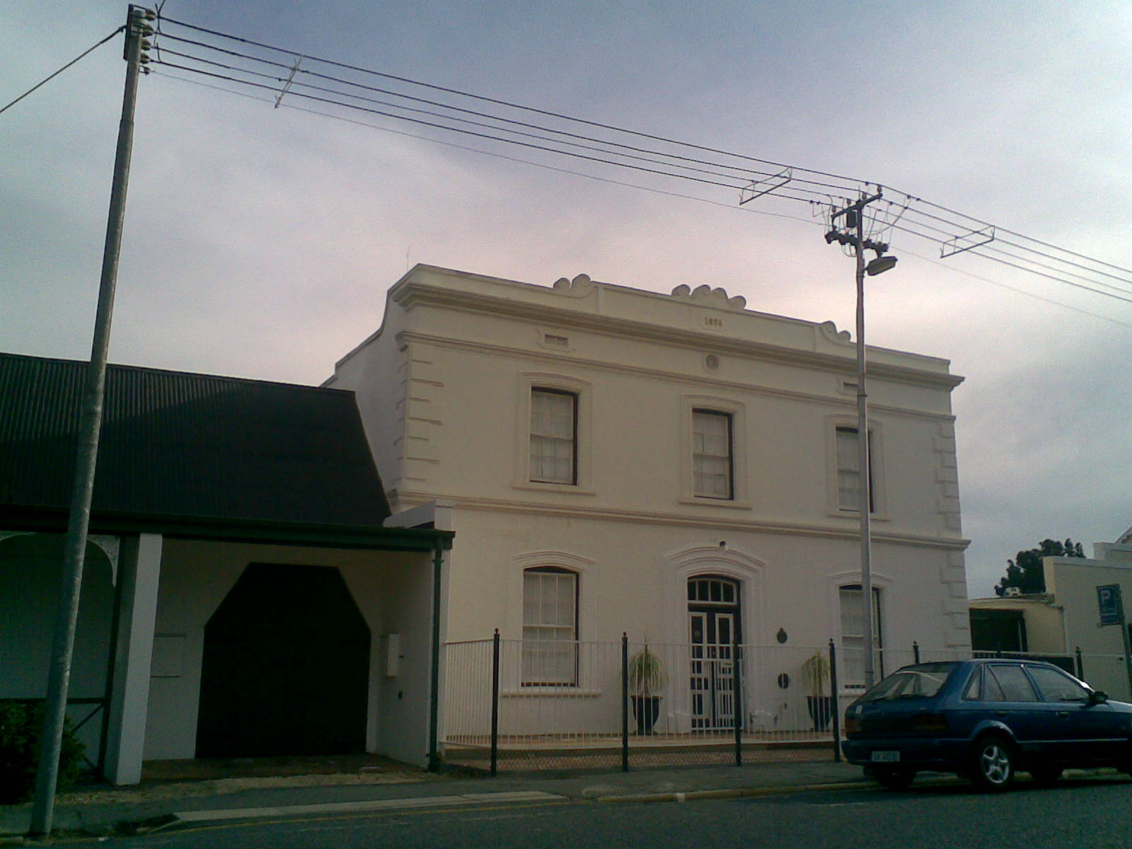 Stockenström Street Sub Division House built c. 1870, Worcester, Western Cape